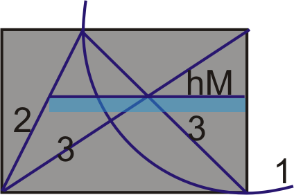 drawing the harmonic mean (Albrecht Dürer)